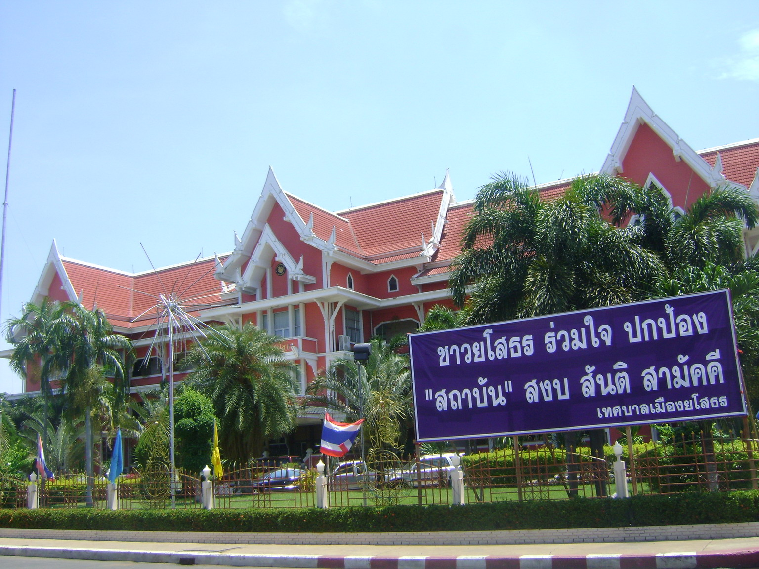 People of Yasothon unite to protect the "institution" quiet peace harmony Municipality of Yasothon